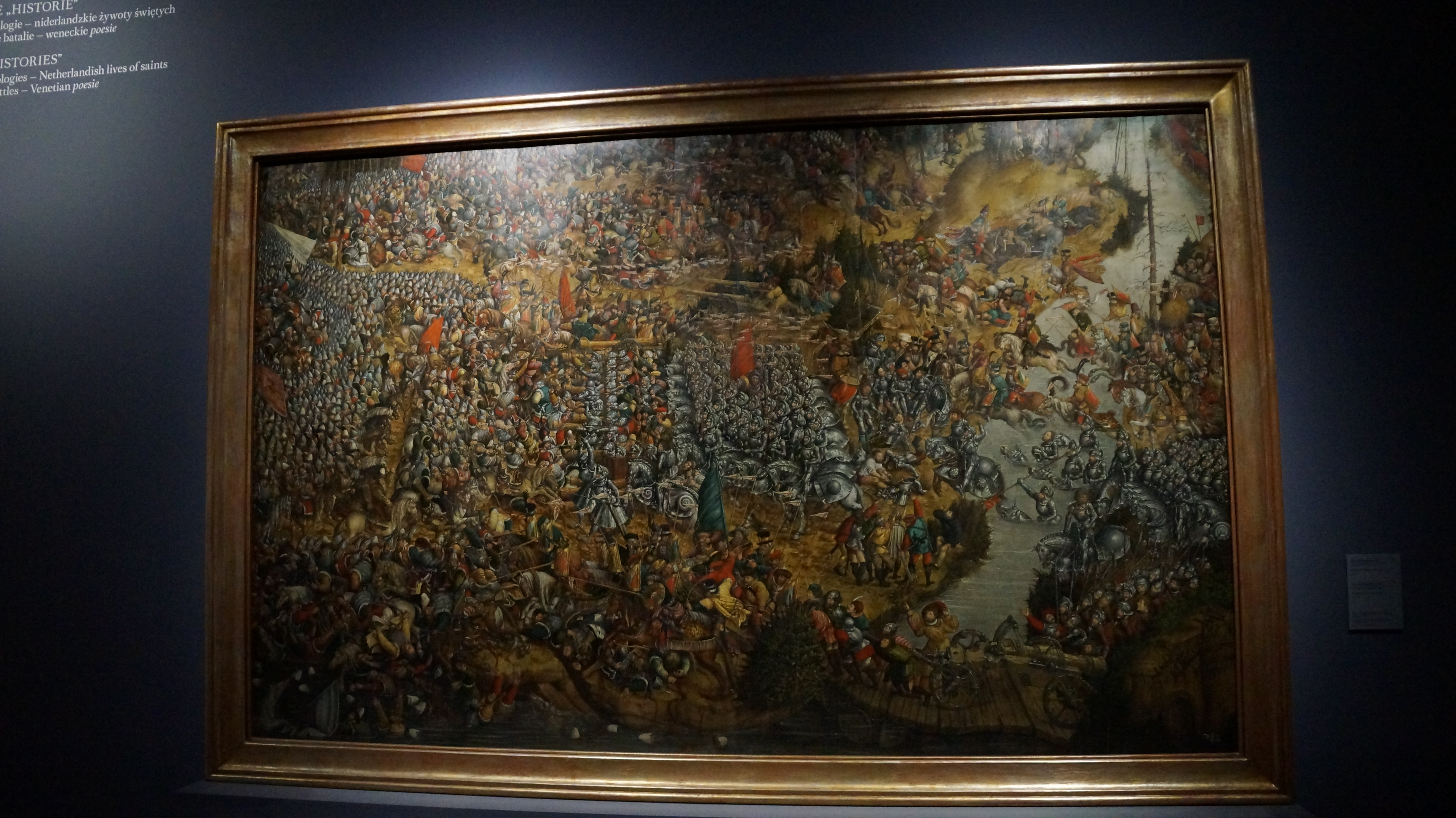 Artist Attributed to Hans Krell Link back to Creator infobox template Title Battle of Orsha (detail). Date circa 1524-1530 Medium tempera on oak board Current location National Museum in Warsaw (NMW) Link back to Institution infobox template wikidata:Q153306 2nd floor Accession number MP 2475